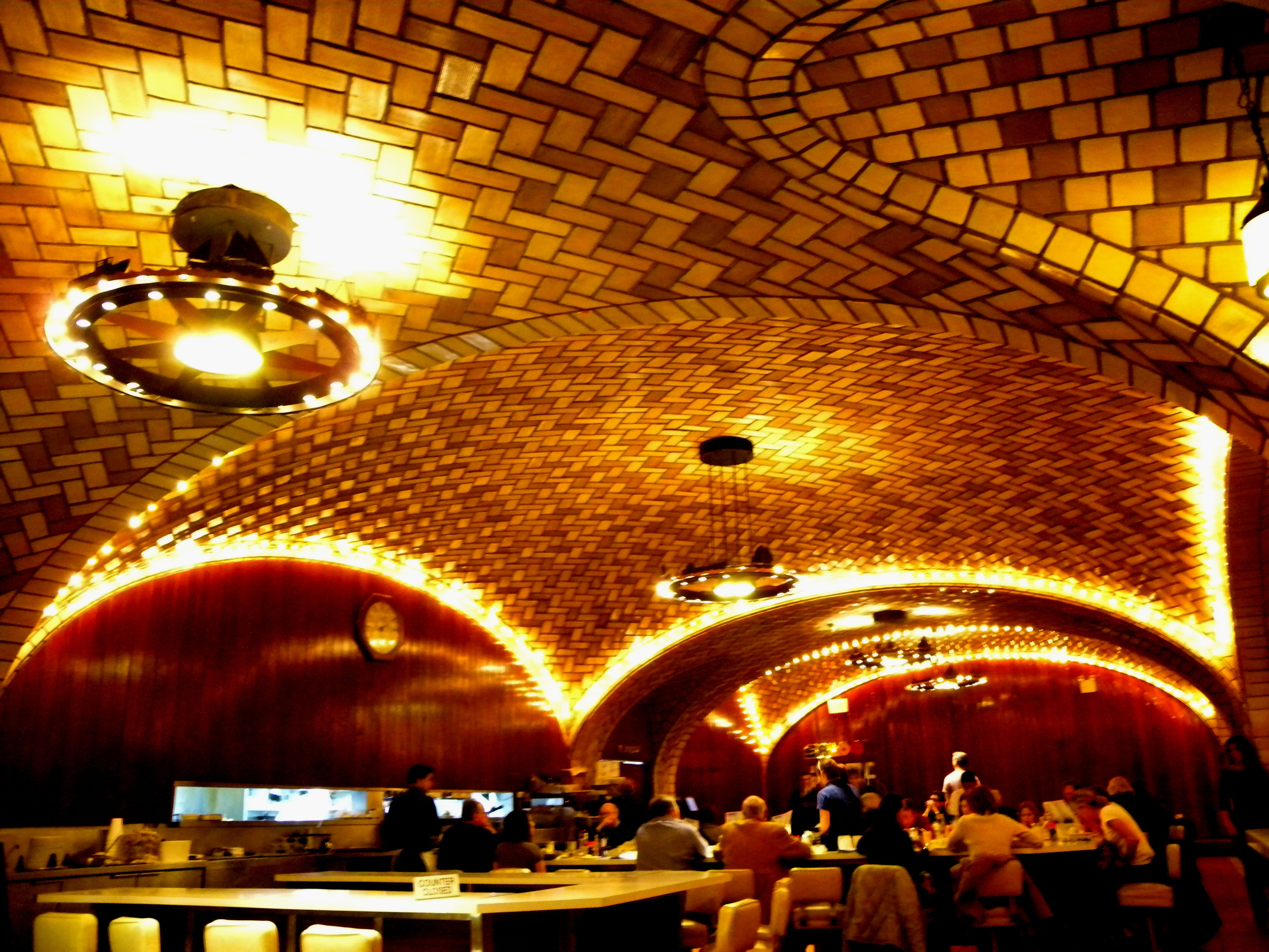 Looking west in Oyster Bar.